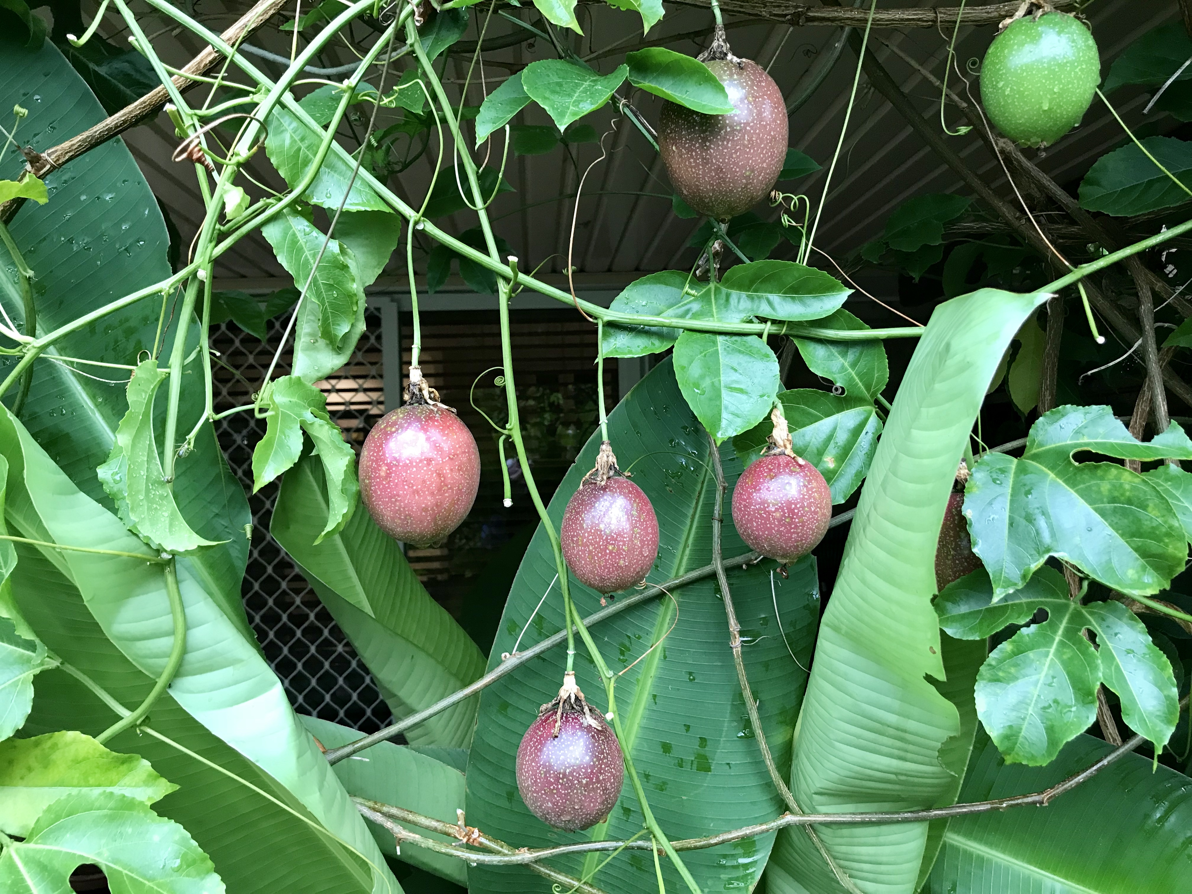 Passion fruit on the vine